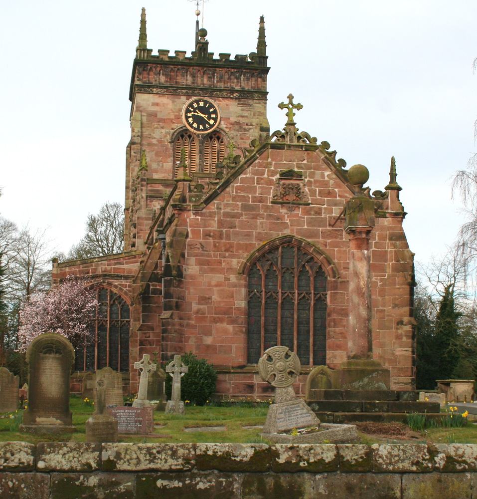 St Mary's Church, Monks Lane, Acton, near Nantwich, Cheshire: view from west View from Chester Road of St Mary's Church. For the view from Monks Lane, see 700416. The 17th-century sundial in the churchyard is visible on the right; see also 700584